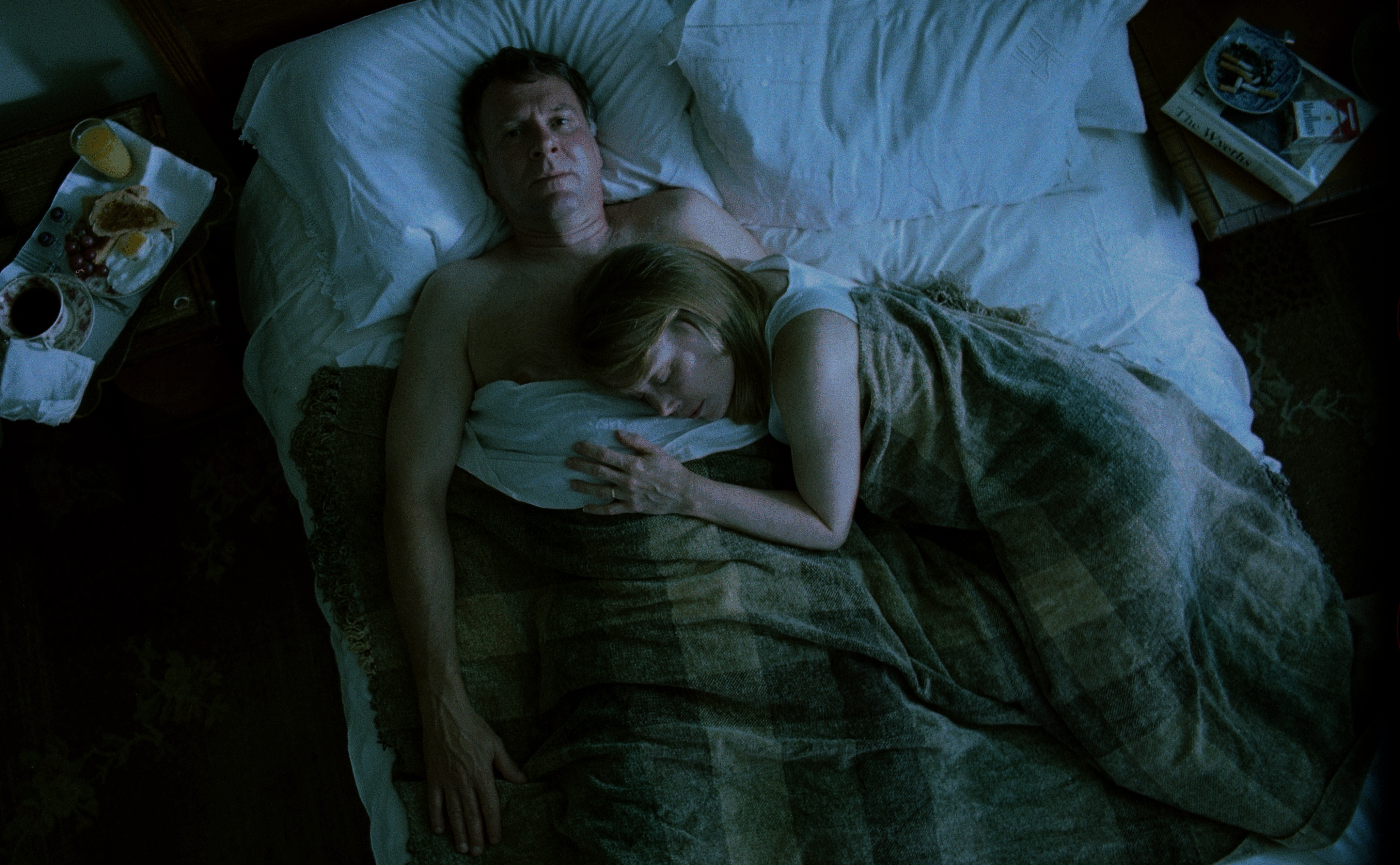 Tom Wilkinson and Sissy Spacek in Todd Field's In the Bedroom (2001).